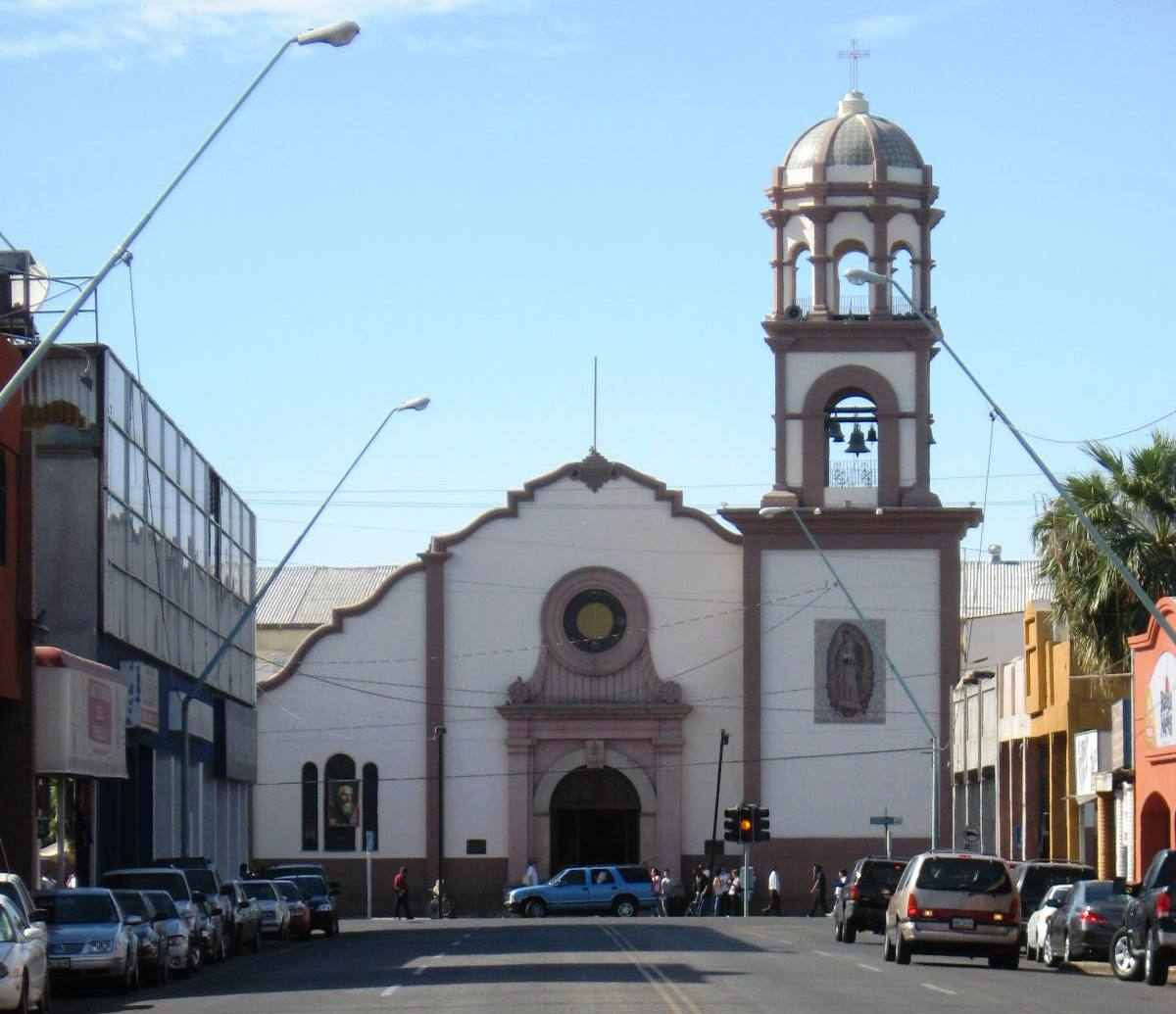 Nuestra Señora de Guadalupe Cathedral in the centro of Mexicali, Baja California, Mexico